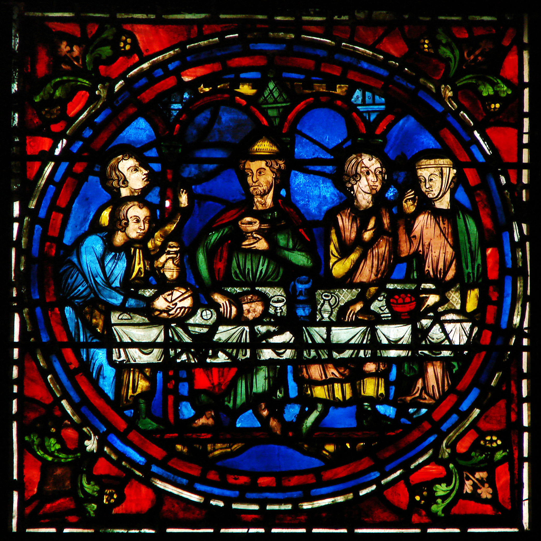 Detail of the stained glass window called Notre-Dame de la Belle Verrière, a section from the 13th century, in Notre-Dame de Chartres cathedral. This part is the central image of a section depicting the Marriage at Cana.